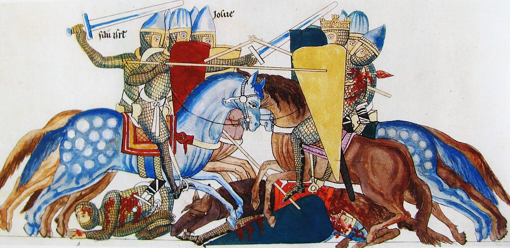 Herrad of Landsberg (c.1130 - July 25, 1195) was a 12th century Alsatian nun and abbess of Hohenburg Abbey in the Vosges mountains. She is known as the author of the pictorial encyclopedia Hortus deliciarum (The Garden of Delights). Herrad of Landsberg was born about 1130 at the castle of Landsberg, the seat of a noble Alsatian family. She entered the Hohenburg Abbey in the Vosges mountains, about fifteen miles from Strasbourg, at an early age. She became abbess there in 1167 and continued in that office until her death. These illustrations are from a reproduction by Christian Maurice Engelhardt, 1818. The original perished in the burning of the Library of Strasbourg during the siege of 1870 in the Franco-Prussian War. The text was copied and published by Straub and Keller, 1879-1899.